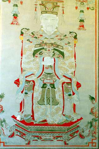 Painting of Lê Đại Hành (Lê Hoàn), exhibited in National Museum of Vietnamese History (Hanoi).